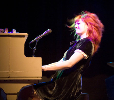 Alison Sudol. Salt Lake City Utah April 2, 2008. Photo by Brian Tibbets (